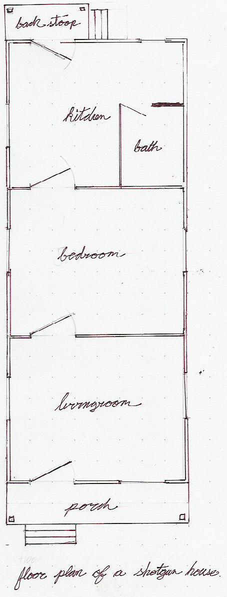 Ground floor plan of an American shotgun house. From front to back: Porch, living room, bedroom, kitchen & bath, back stoop.